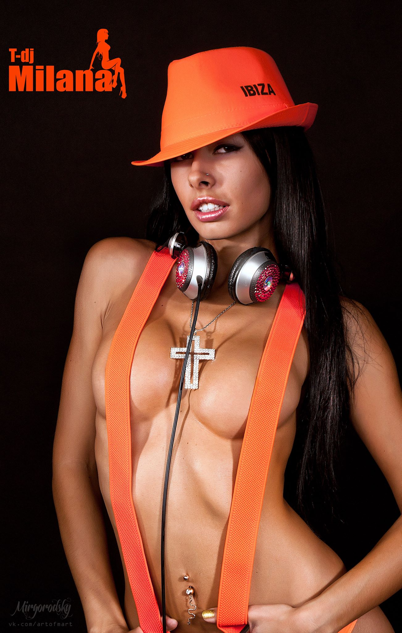 T-DJ-Milana